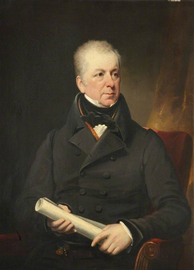 Portrait of General Isaac Gascoyne (1770–1841) by James Lonsdale (1777–1839).